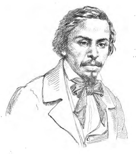 Tito Speri (Brescia, August 2, 1825 – Belfiore (Mantova), March 3, 1853)